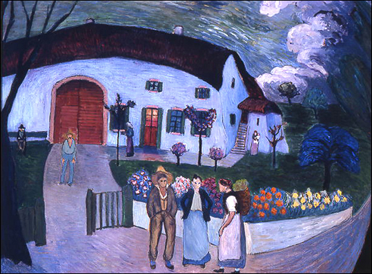 Marianne von Werefkin: La Famiglia (The Family), 1922, Tempera on cardboard, 55.5 x 72.5 cm